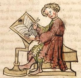 initial illustration of Lucidarius in an early 15th century German (Alsatian) manuscript. In spite of the filename, this picture is probably intended as representing Honorius of Autun, a French theologian of the 12th century and author of the Elucidarium (and not a "Gaelic poet").